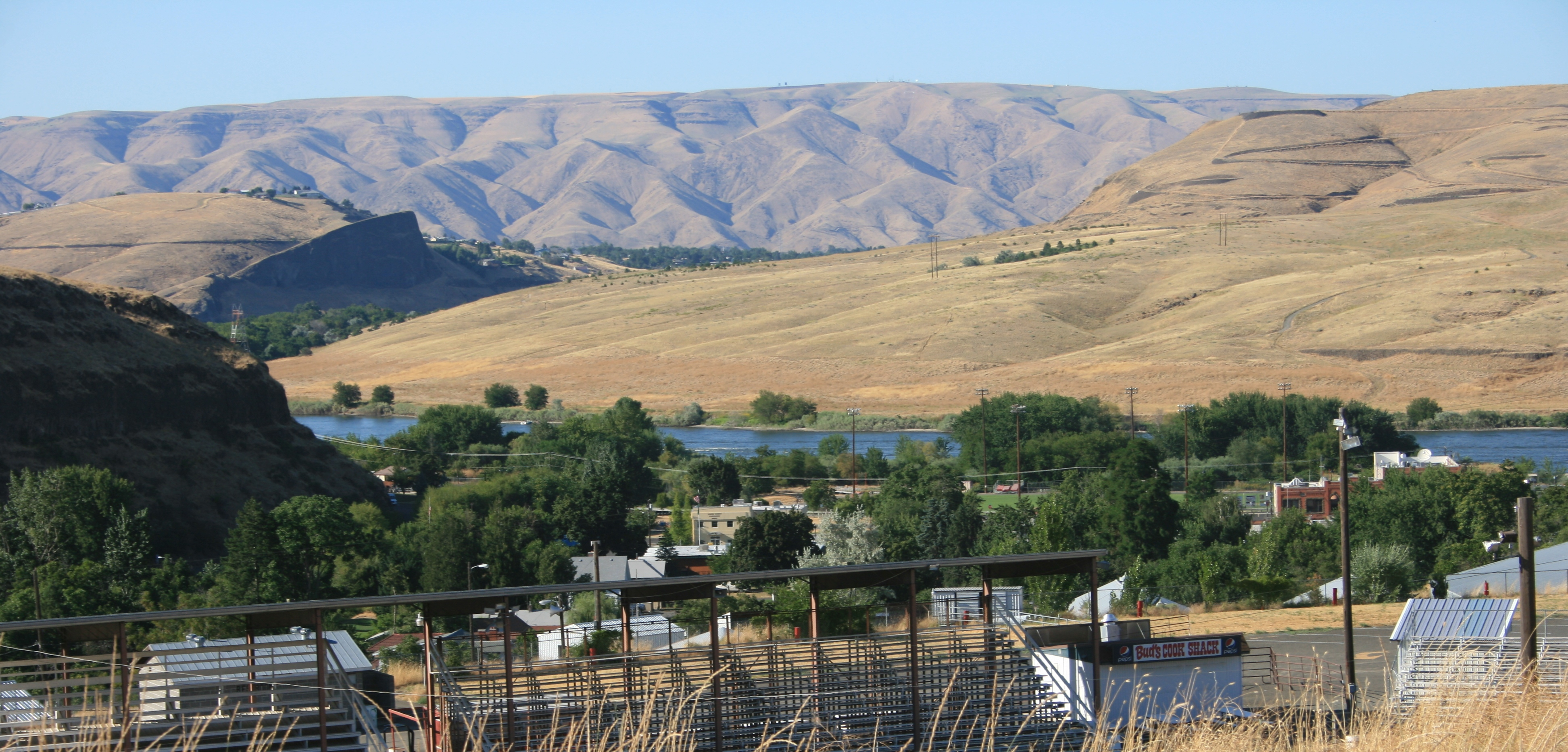 For use is in the Asotin, Washington article. Photo taken August 6th, 2011 by uploader. Skål - Williamborg (talk) 03:27, 8 August 2011 (UTC)